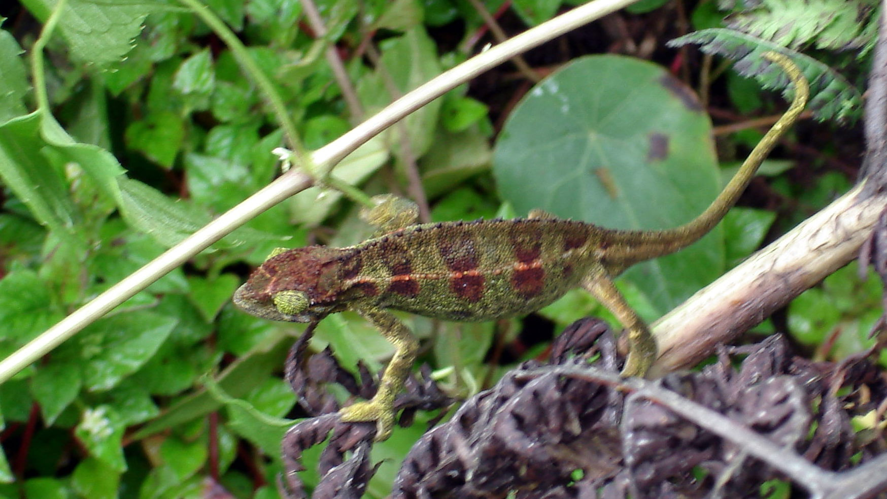 Chameleon on the Central Circuit of Rwenzori, Uganda